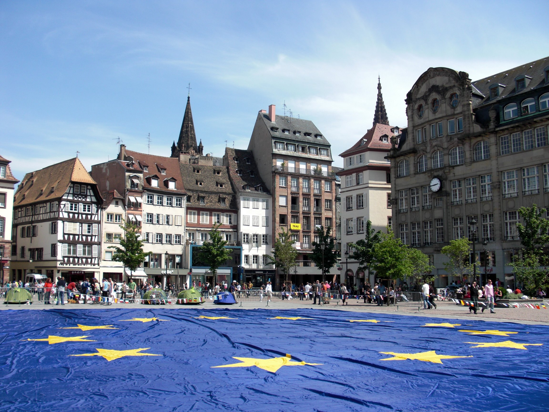 Big flag of Europe in Strasbourg (France) during Europe Day in 2009.